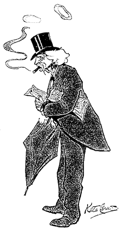 Mark Twain, the famous humorist, was the first of Kate Carew's journalistic conquests.